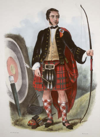 "MacKinnon". A plate illustrated by R. R. McIan, from James Logan's The Clans of the Scottish Highlands, published in 1845.